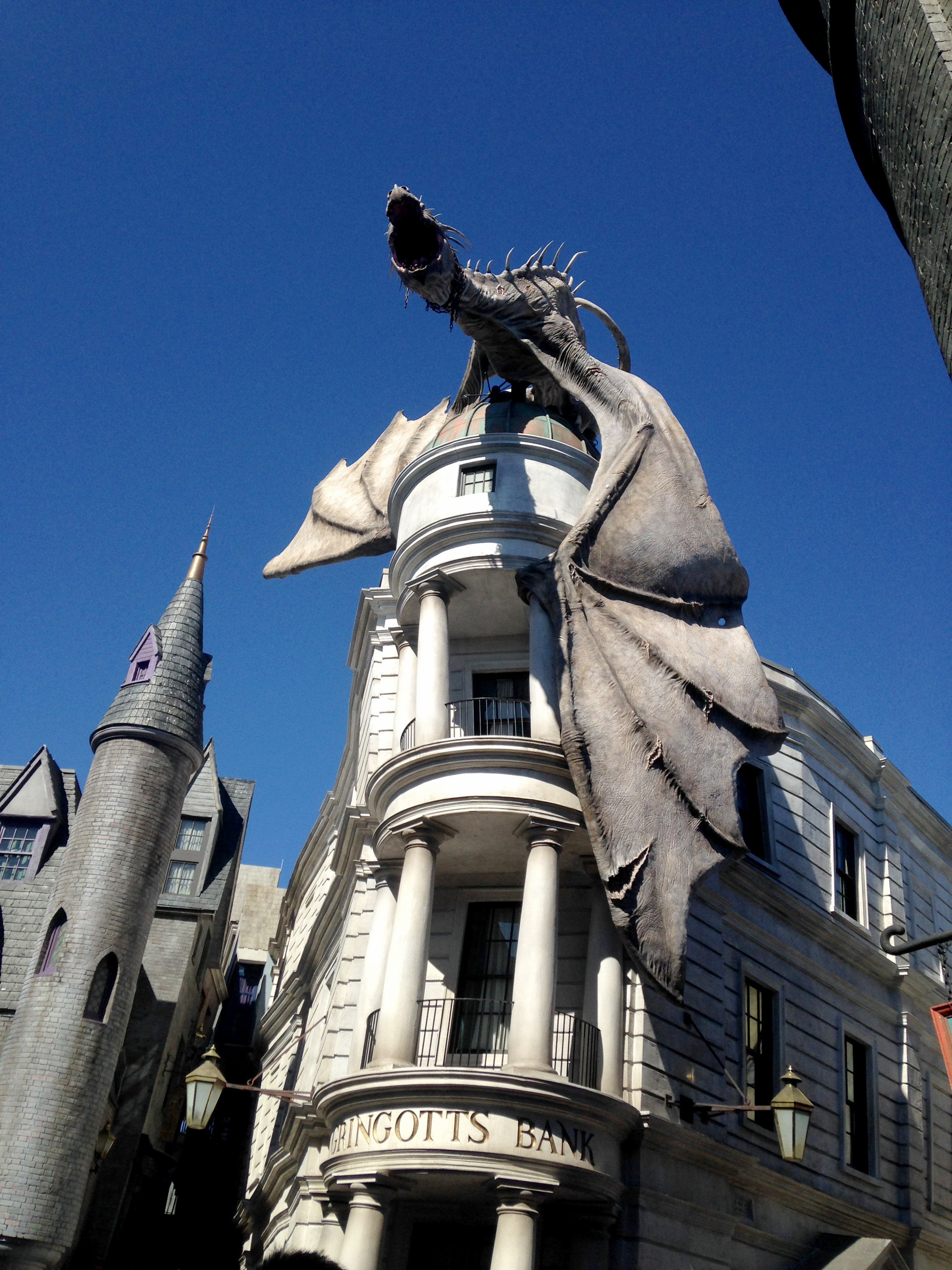 Diagon Alley at Universal Studios Florida